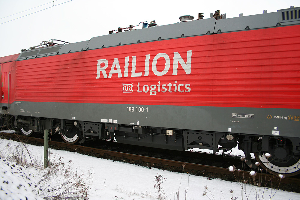 Railion Baureihe 189 locomotive with Railion logo. Unit number 189 100-1